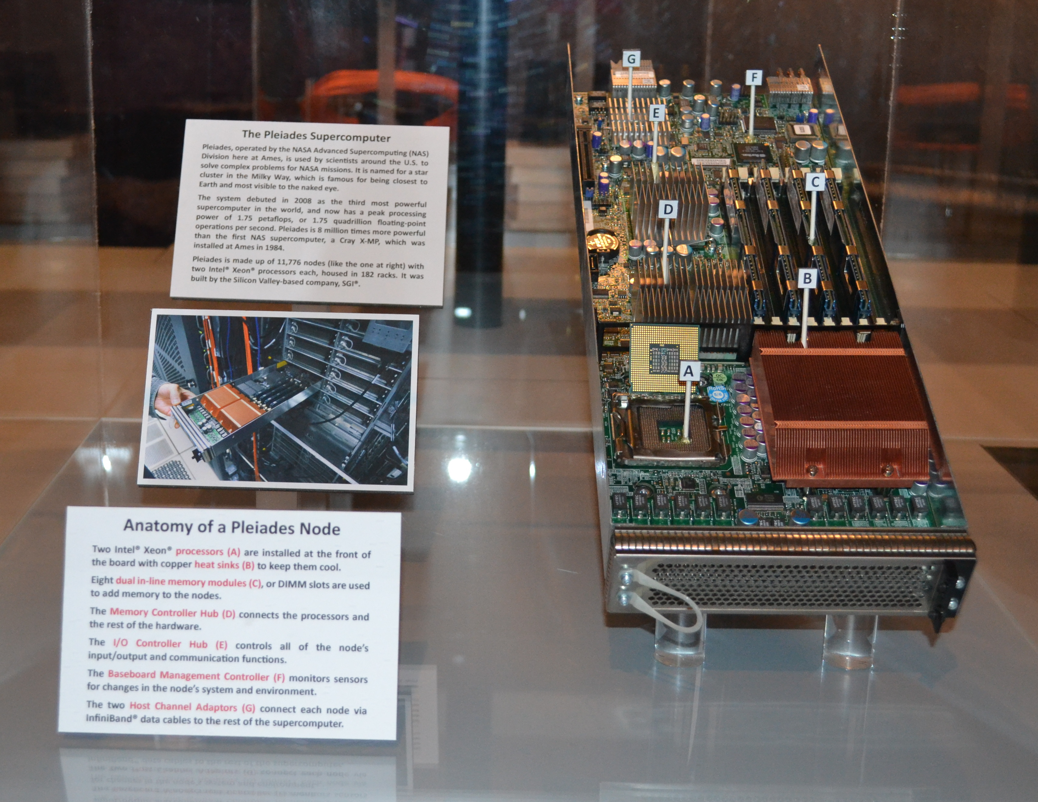 Pleiades supercomputer node on display at the NASA Ames Visitor Center in Mountain View, California